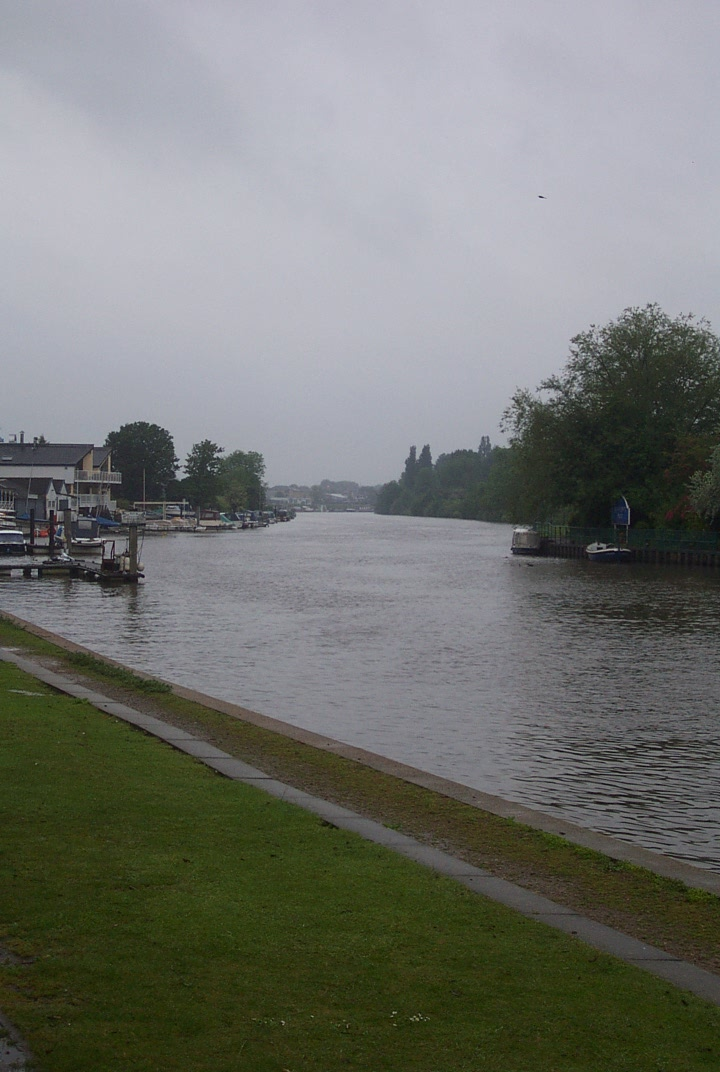 Taken by Tim Trent 27 May 2006 The River Thames at Surbiton in Surrey in the United Kingdom showing Thames Sailing Club, home of the Thames Rater, on the left, Raven's Ait on the right. The view is upstream, taken from Queen's Promenade, on the right bank of the Thames.. The jetty in the foreground of that of the London River Yacht Club